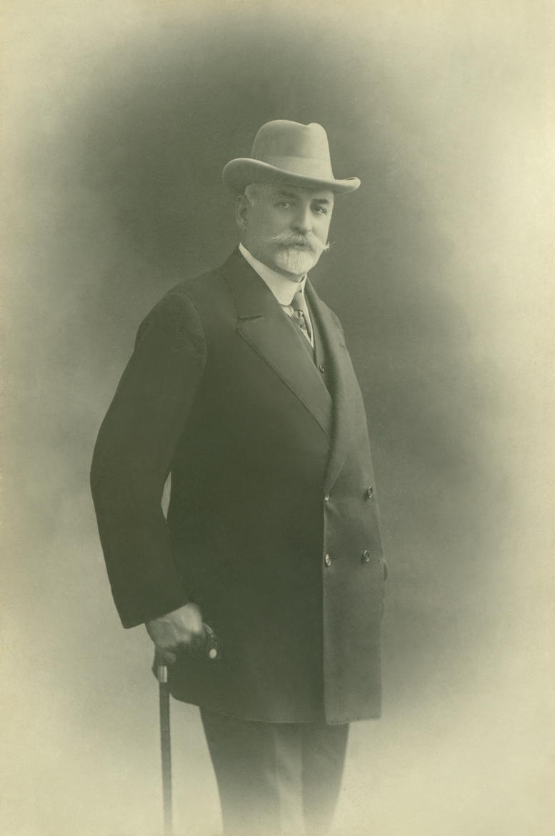 Davit Sarajishvili